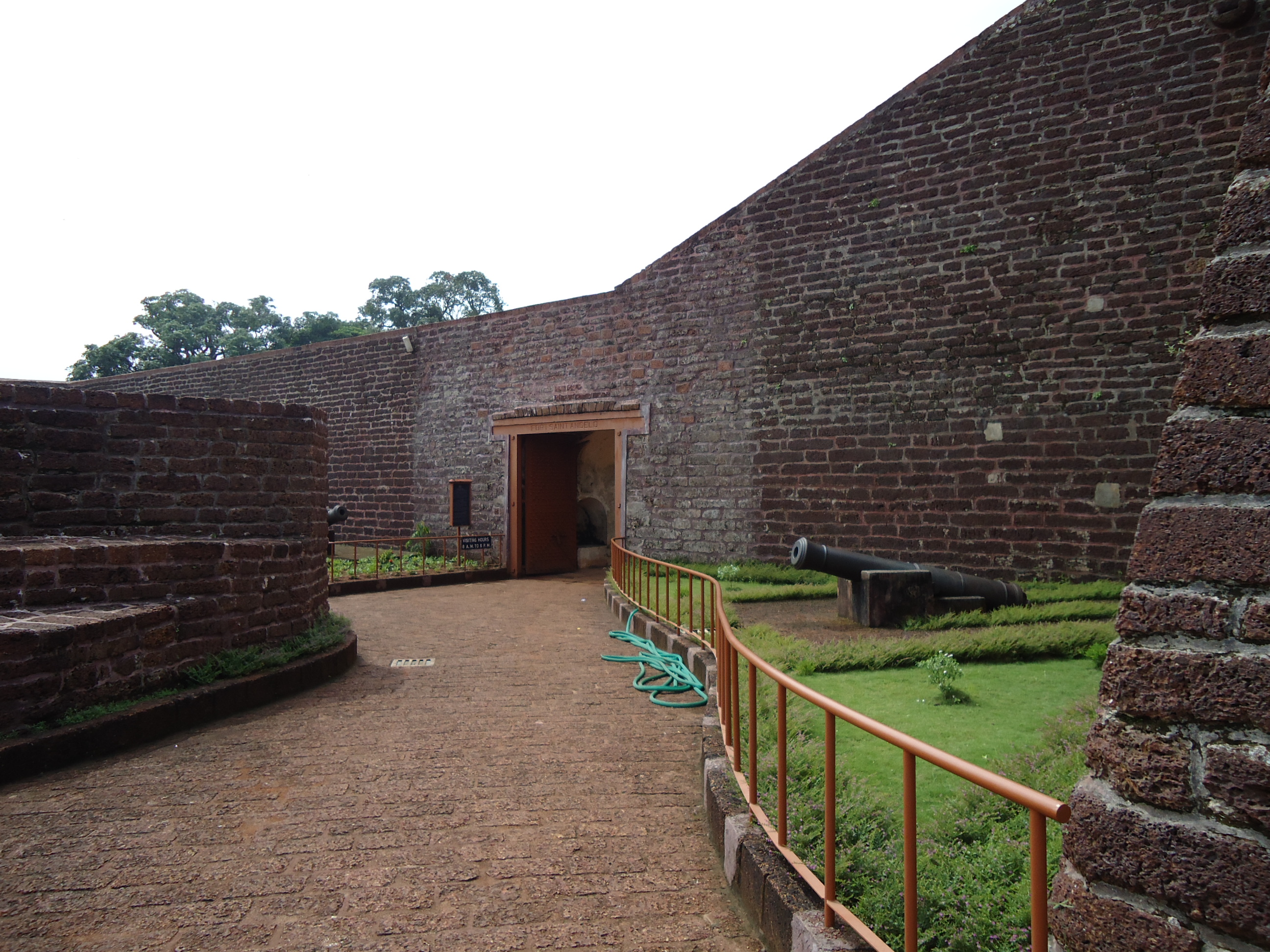 This media file is uploaded with Malayalam loves Wikimedia event - 2. St Angelo Fort Entrance1